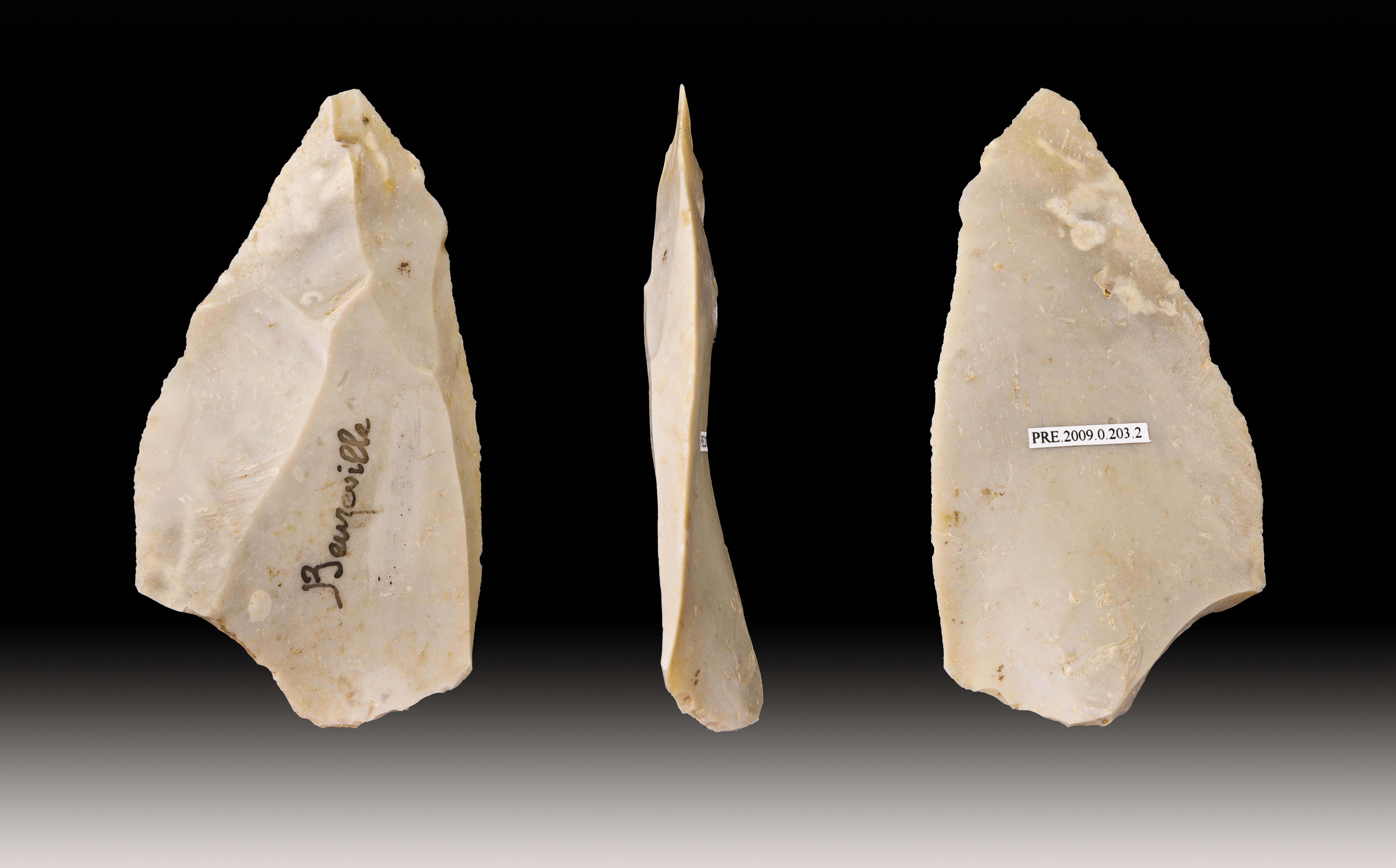 Different views of the same specimen.